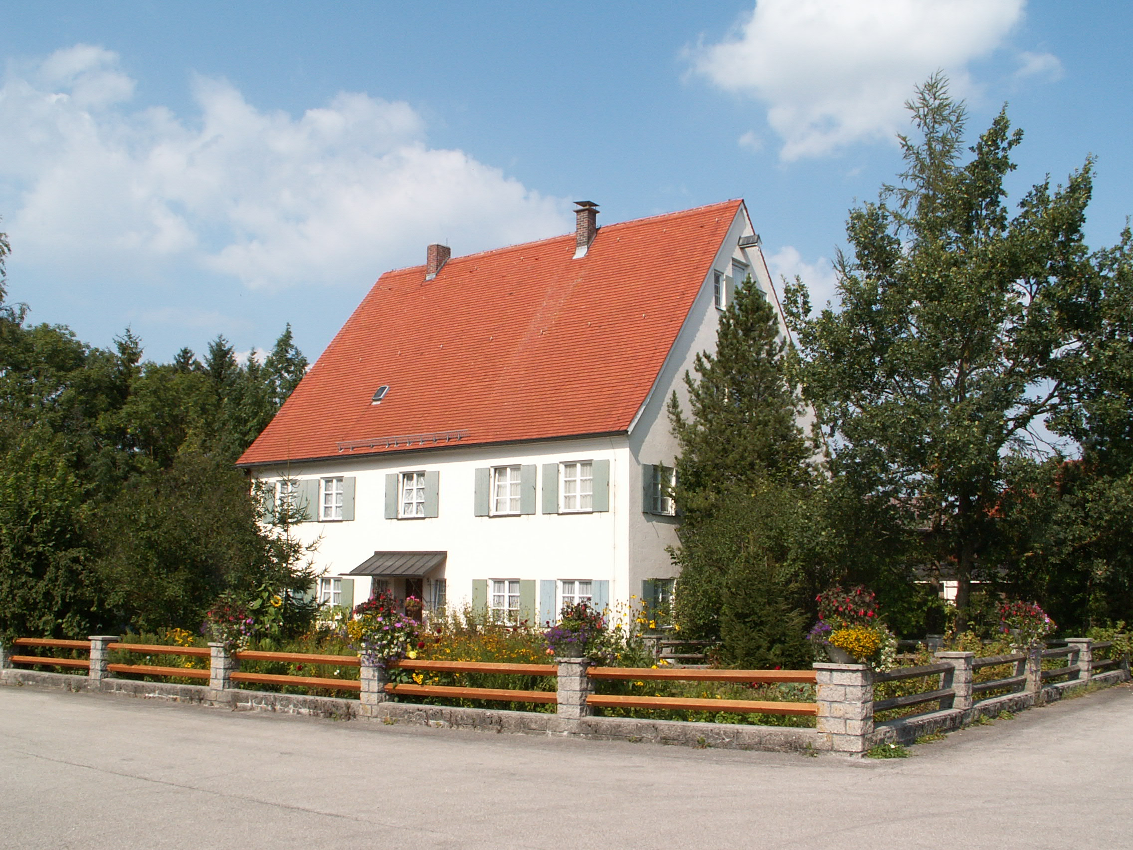 Pfarrhof in Leuterschach, Stadt Marktoberdorf